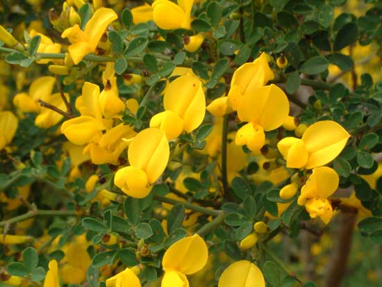 Calycotome spinosa Flowers